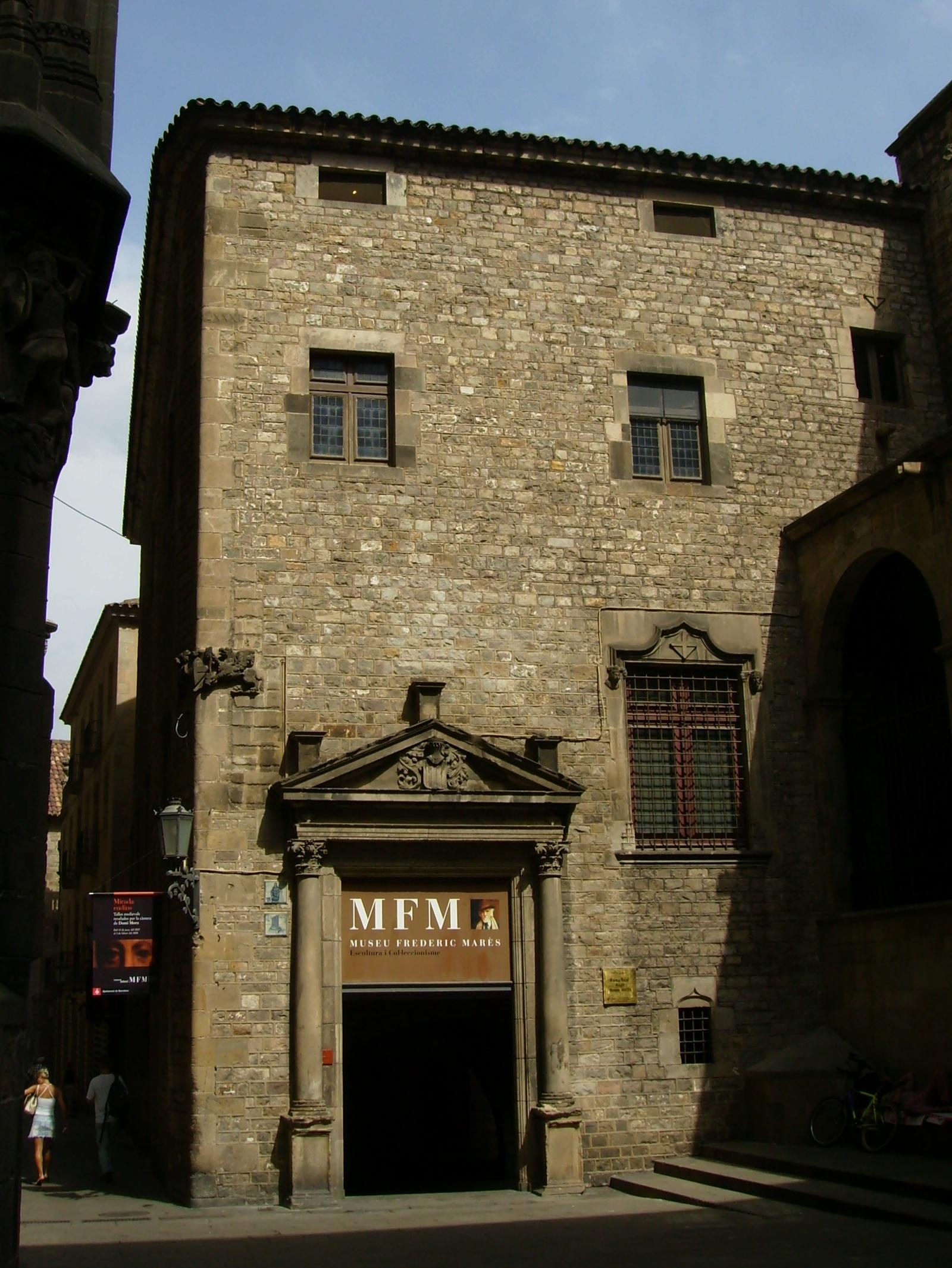 Museum Frederic Marès - Barcelona (Catalonia)